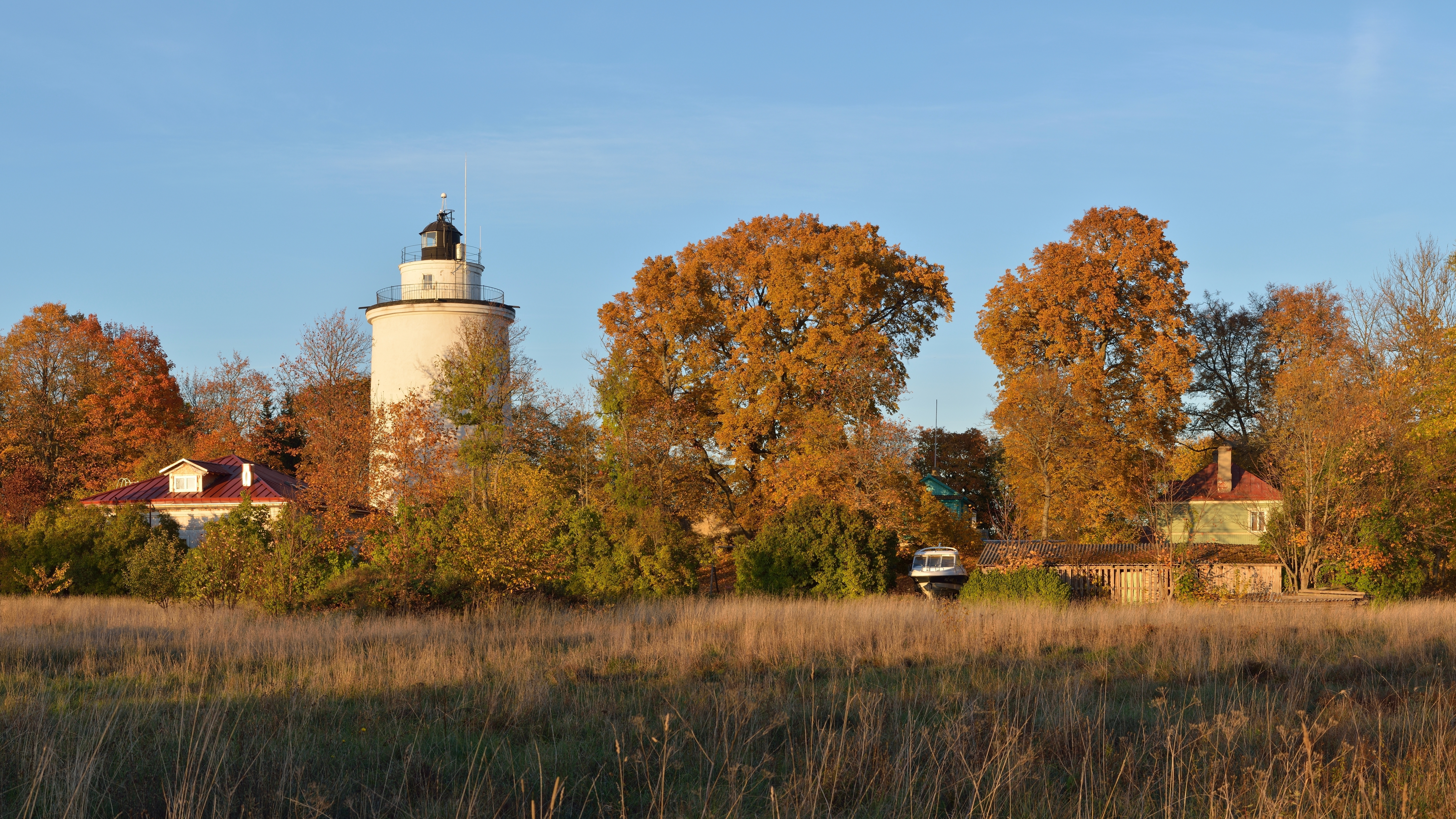 Suurupi rear lighthouse, built in 1760.